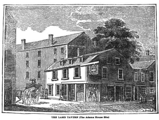 Lamb Tavern, on Washington St., between West St. and Boylston St., Boston